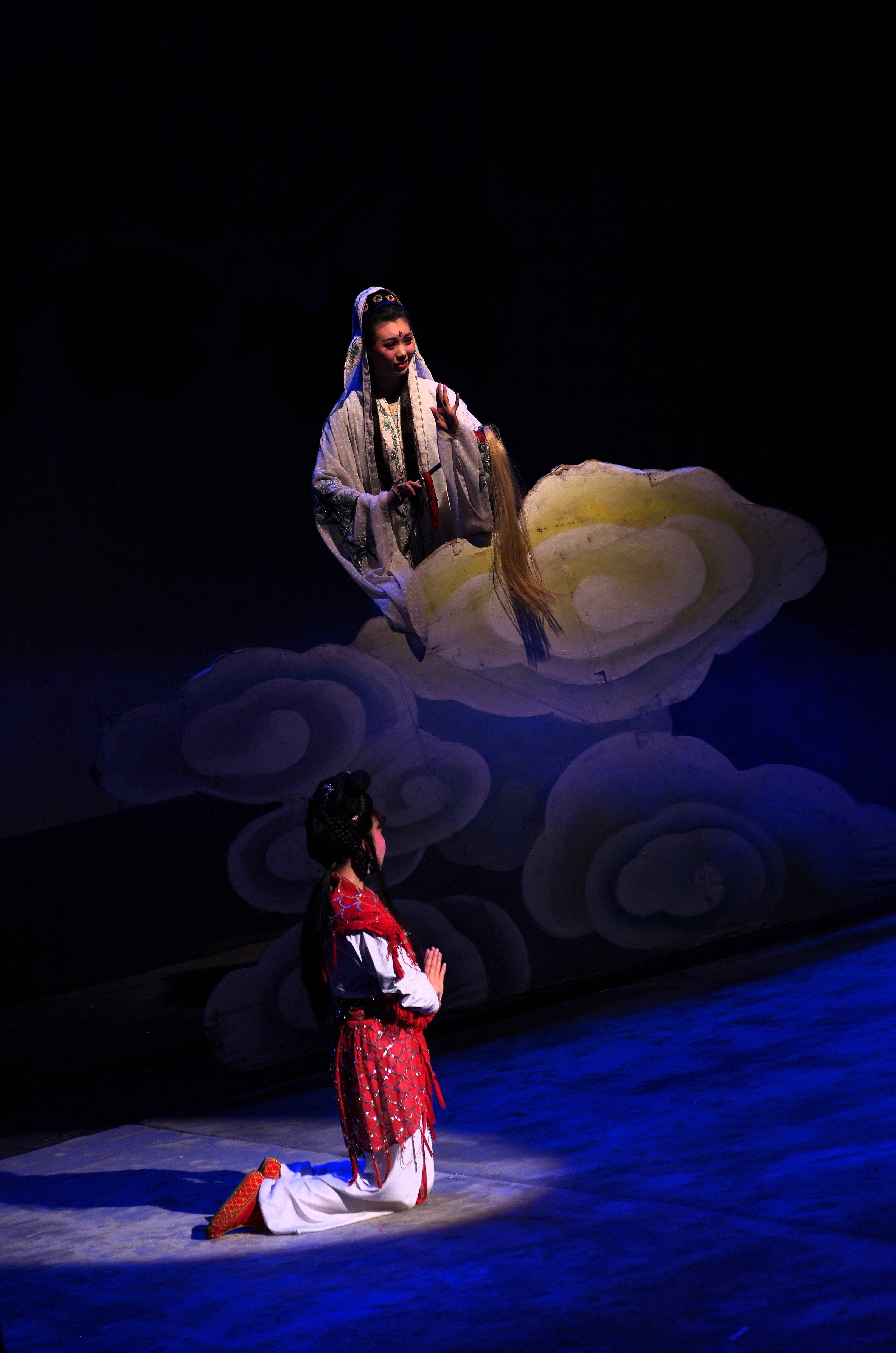 a Shaoxing opera performance of Zhui Yu